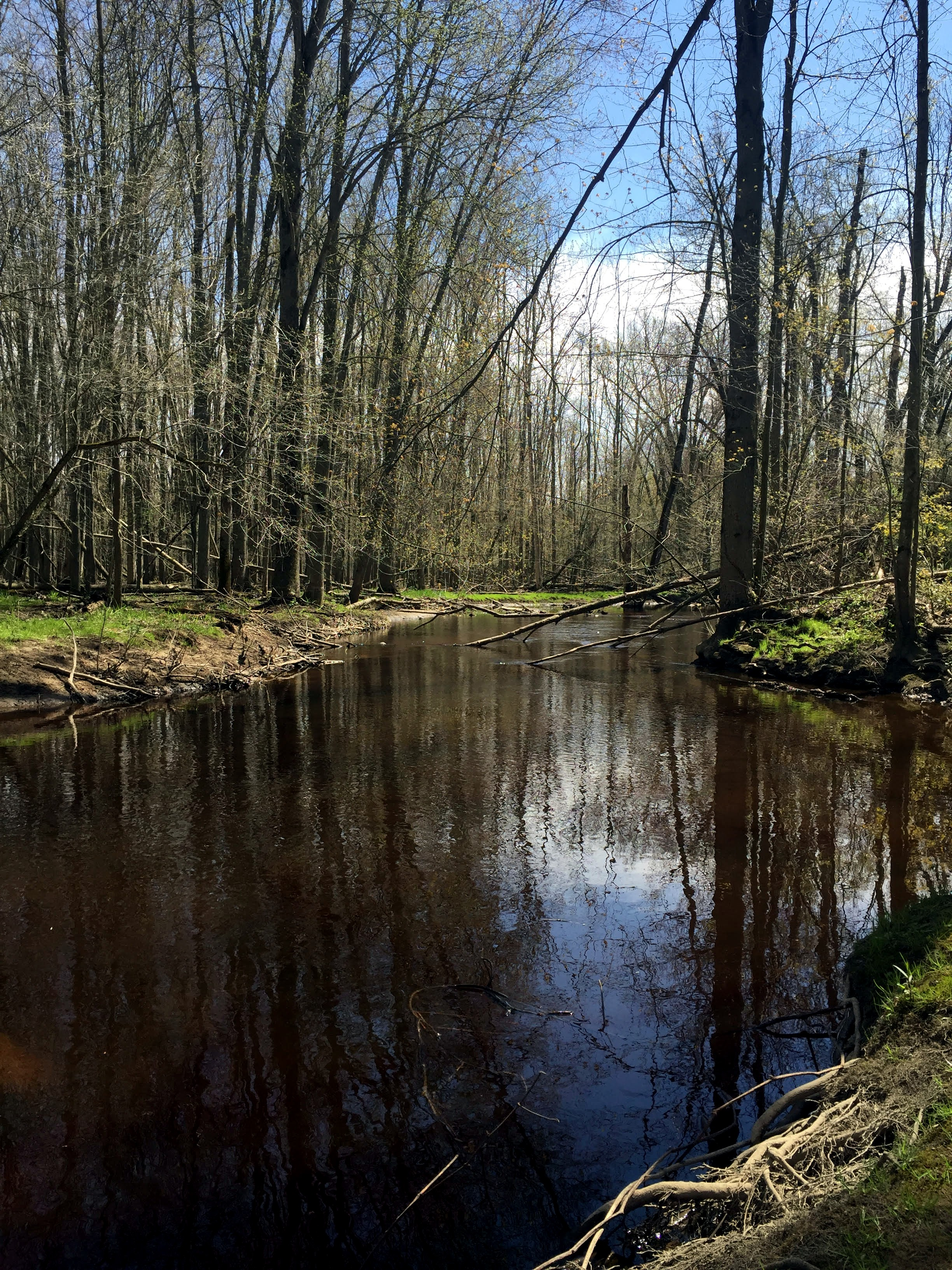 Cass River, Sanilac Petroglyphs Historic State Park, Greenleaf Township, Sanilac County, Michigan.